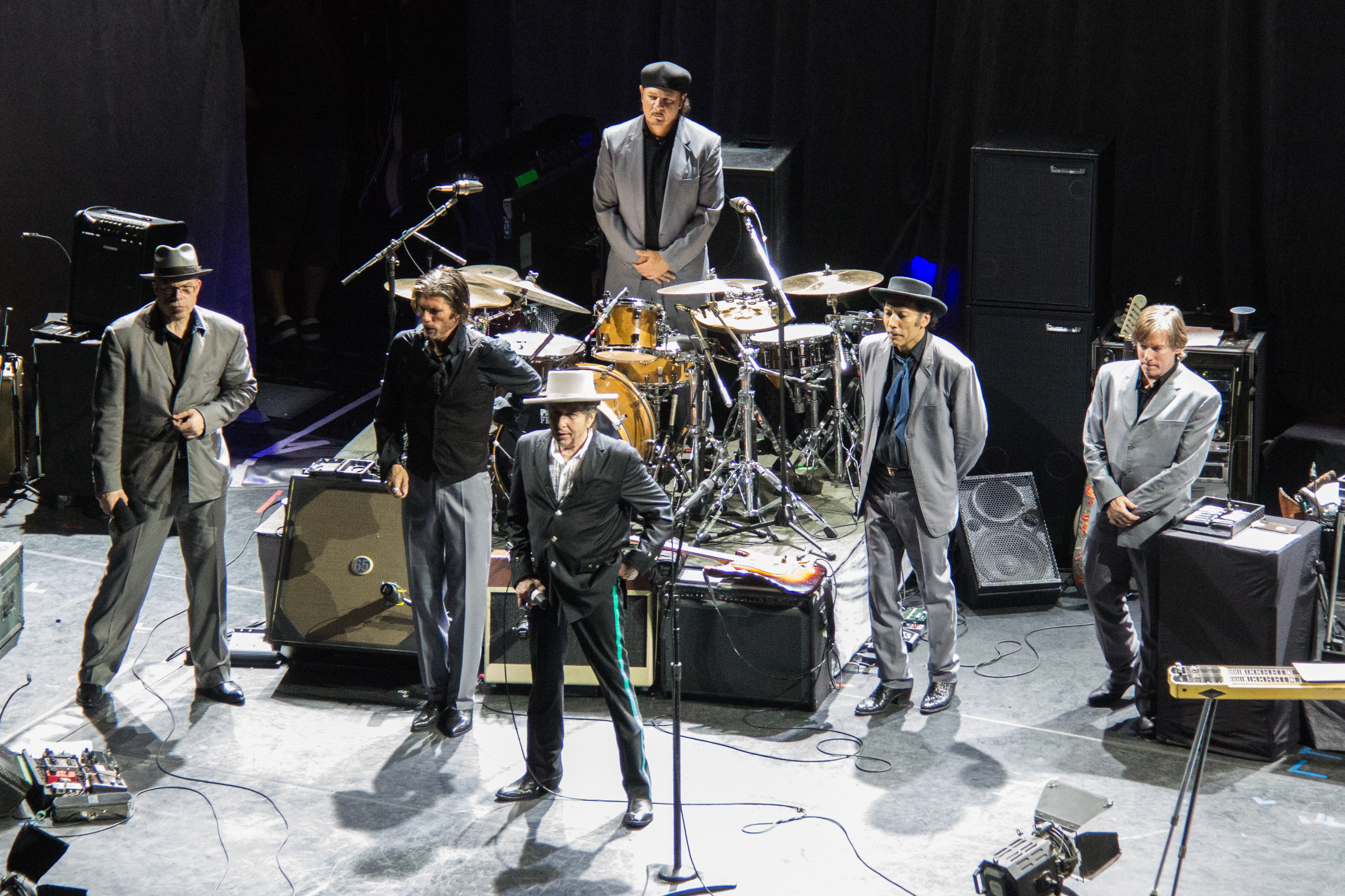 Bob Dylan band in 2012, Buenos Aires, Argentina